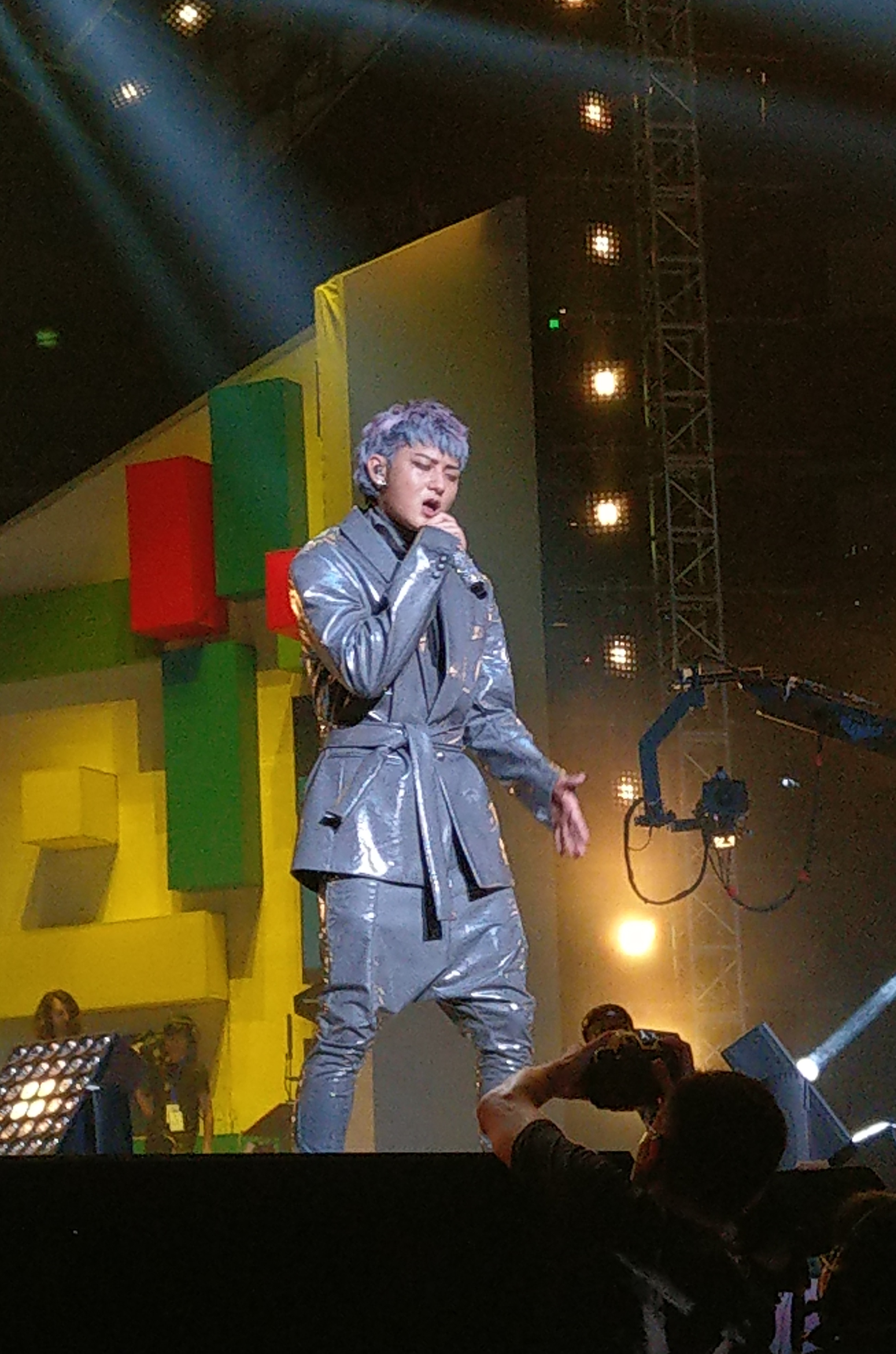 Z.Tao Performing at IS BLUE Concert, Shanghai, Jun 2019